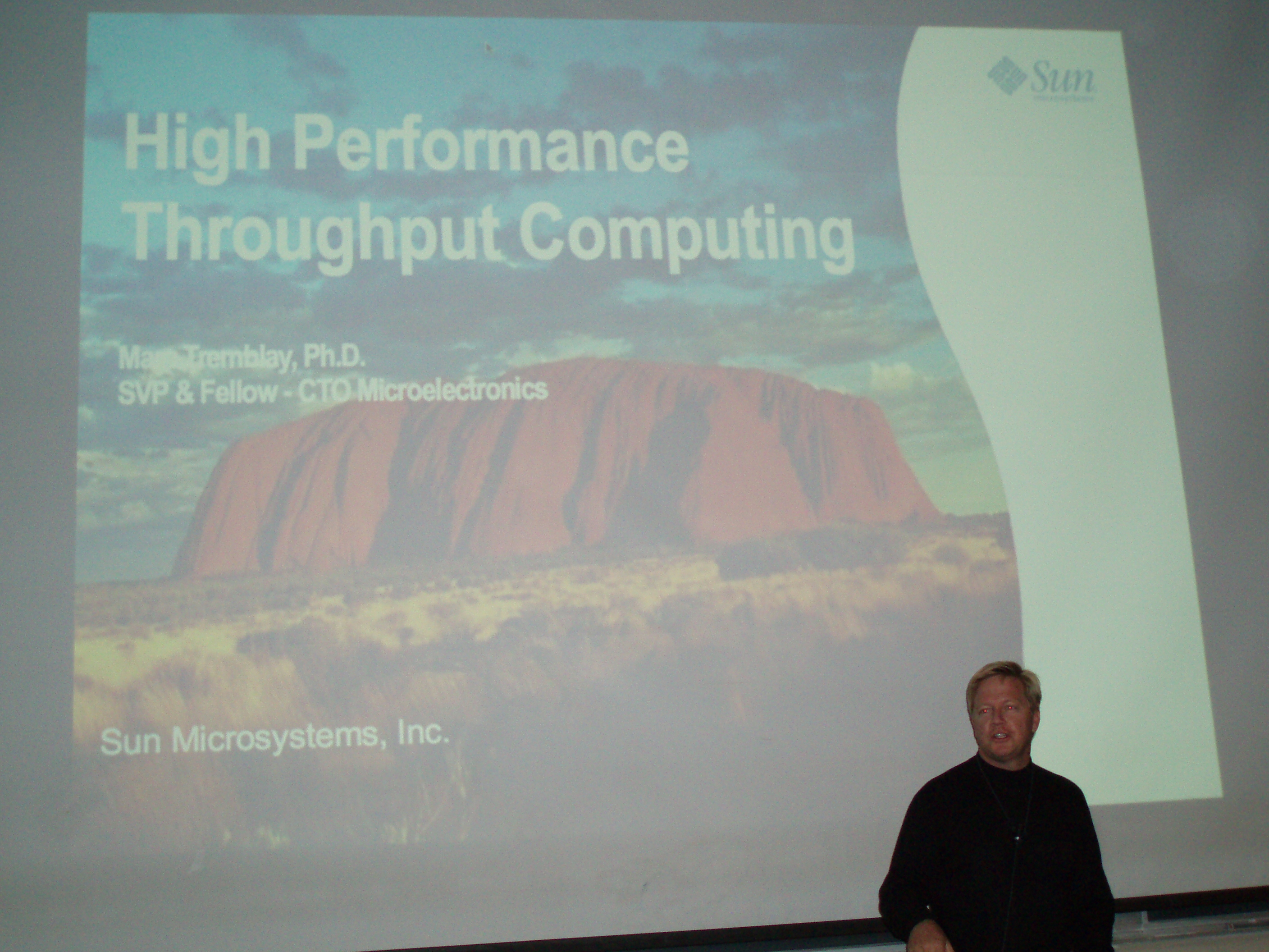 Marc Tremblay giving a talk on Rock at the University of Toronto.